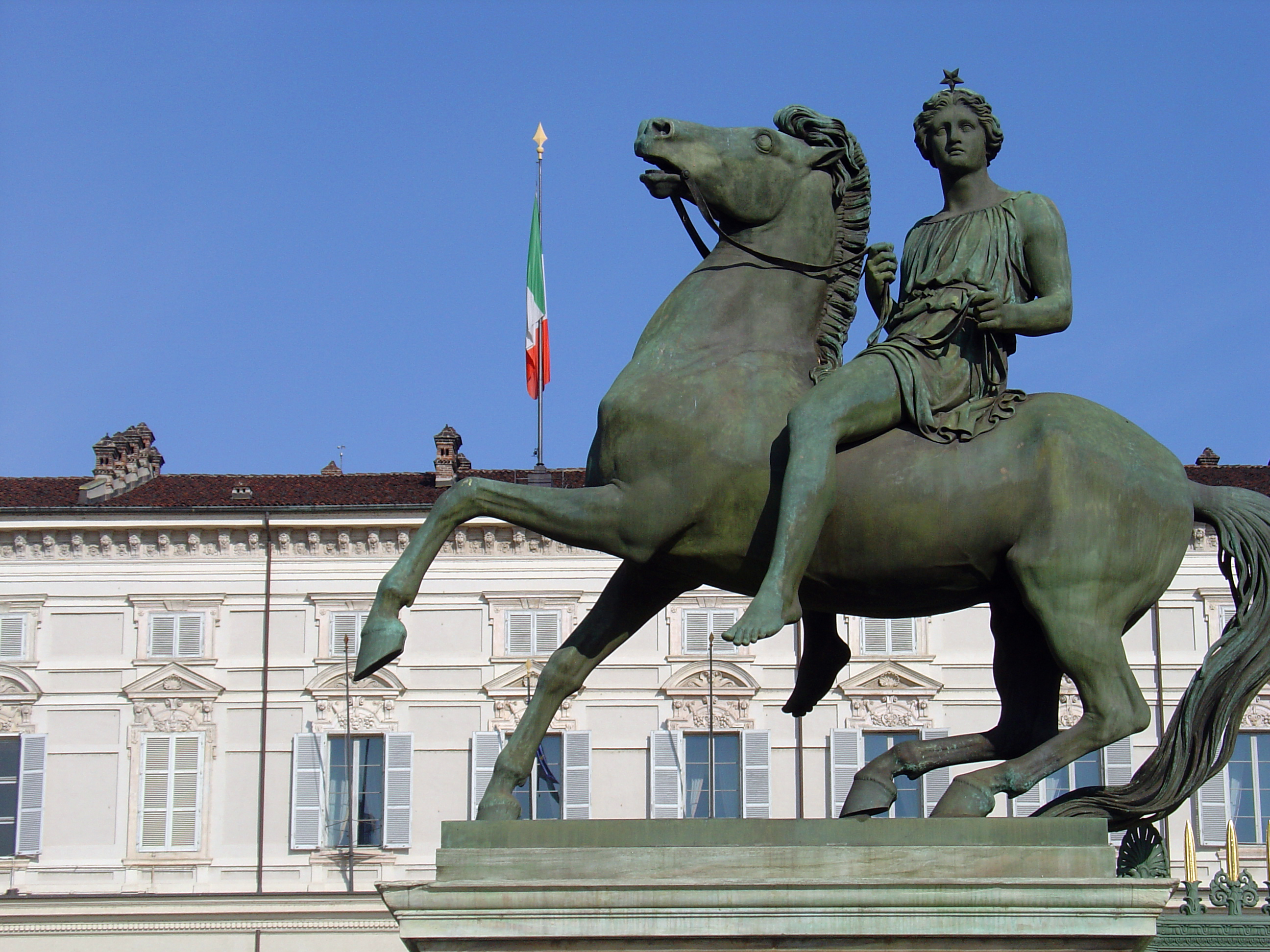 Bronze stratue of Pollux, beside the entrance to Piazzetta Reale, Turin. Just before the Royal Palace.